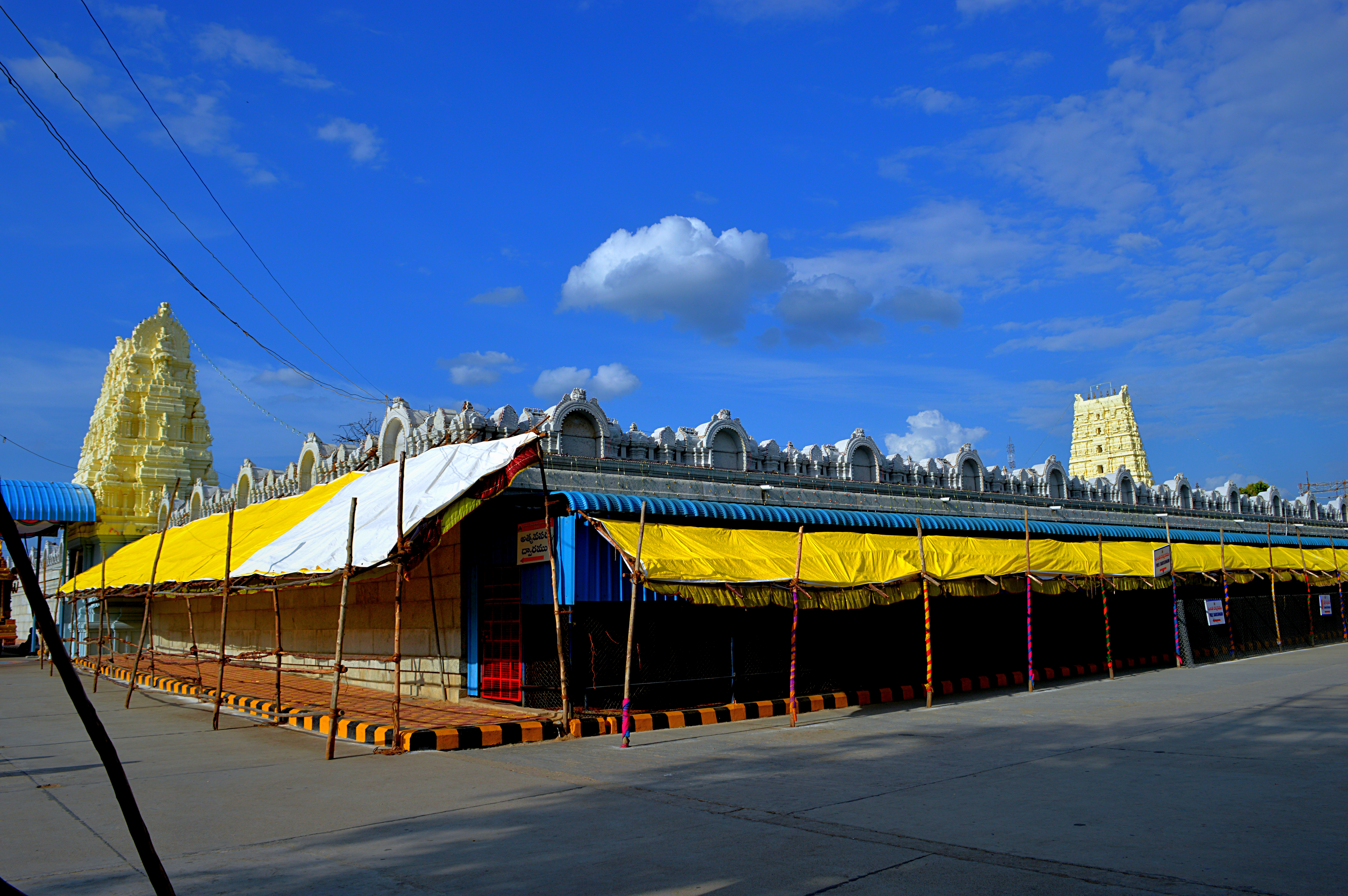 Under the blue sky